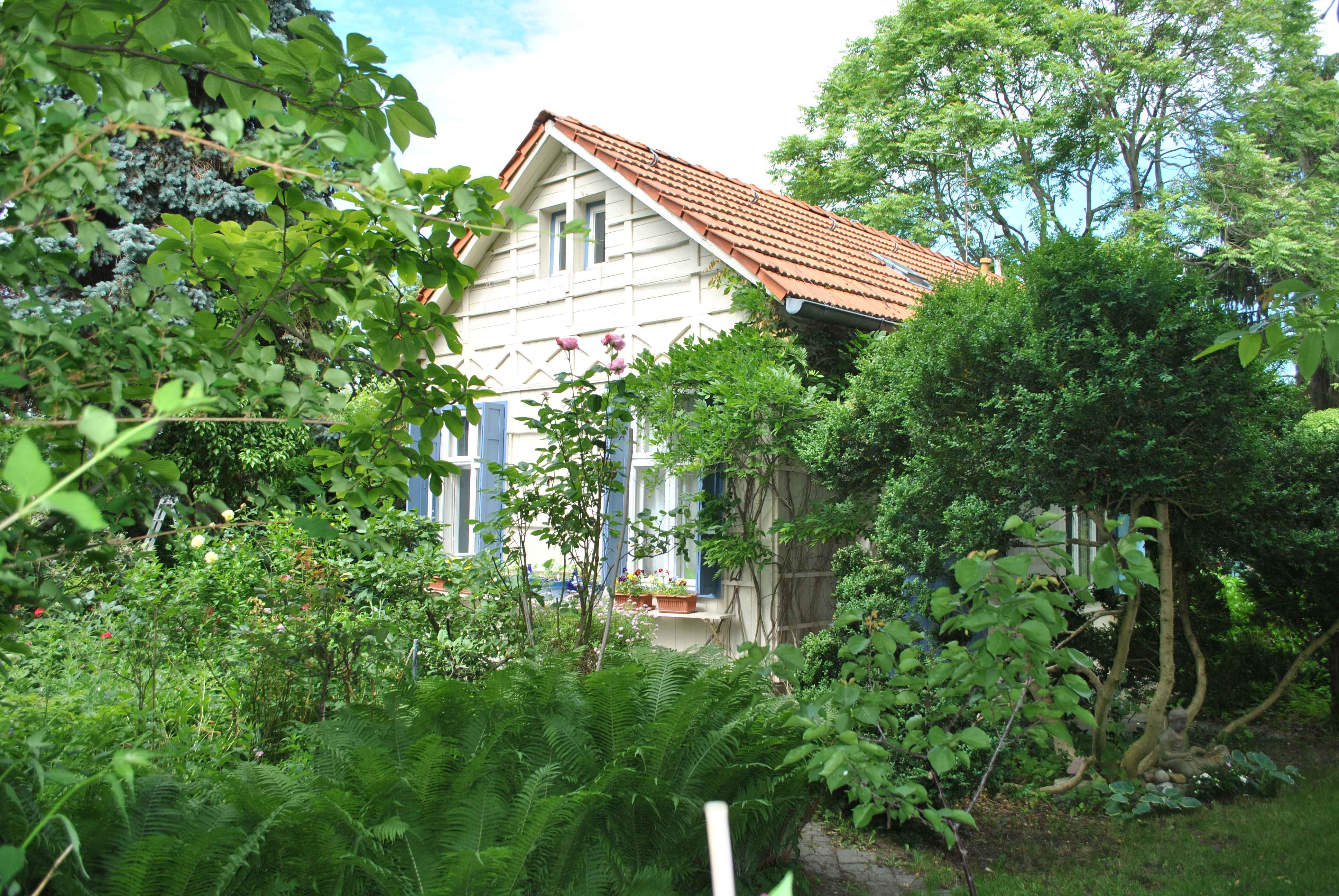 Image originally published in Queer Places: Retracing the Steps of LGBTQ people around the World Authored by Elisa Rolle